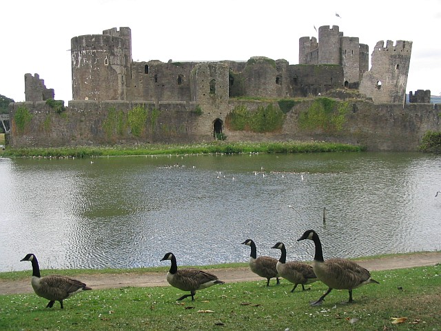 Caerphilly Castle & visitors